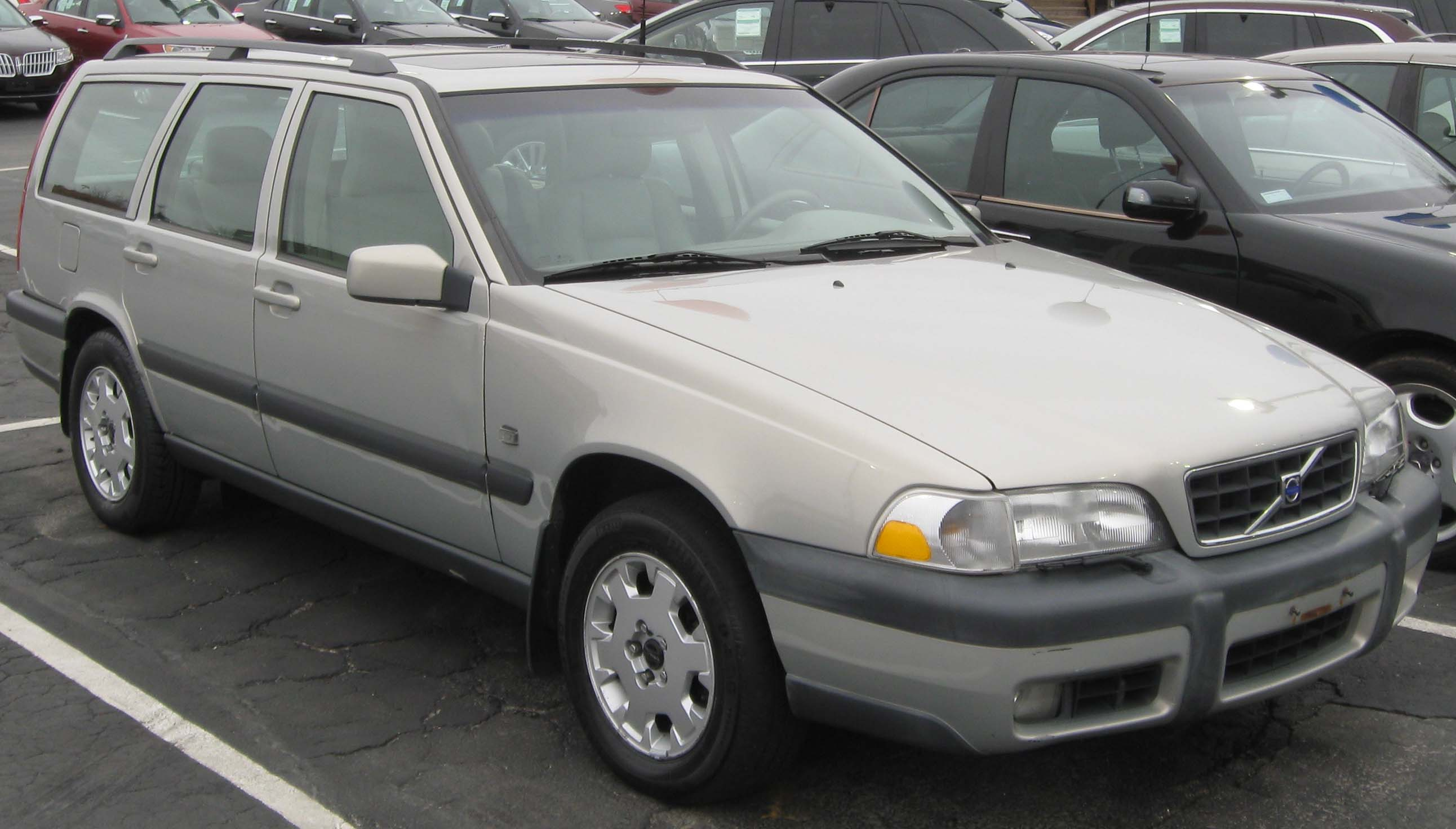 2000 Volvo V70 XC photographed in Silver Spring, Maryland, USA